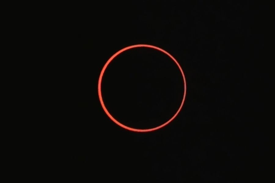 Annular Eclipse, seen in Guam